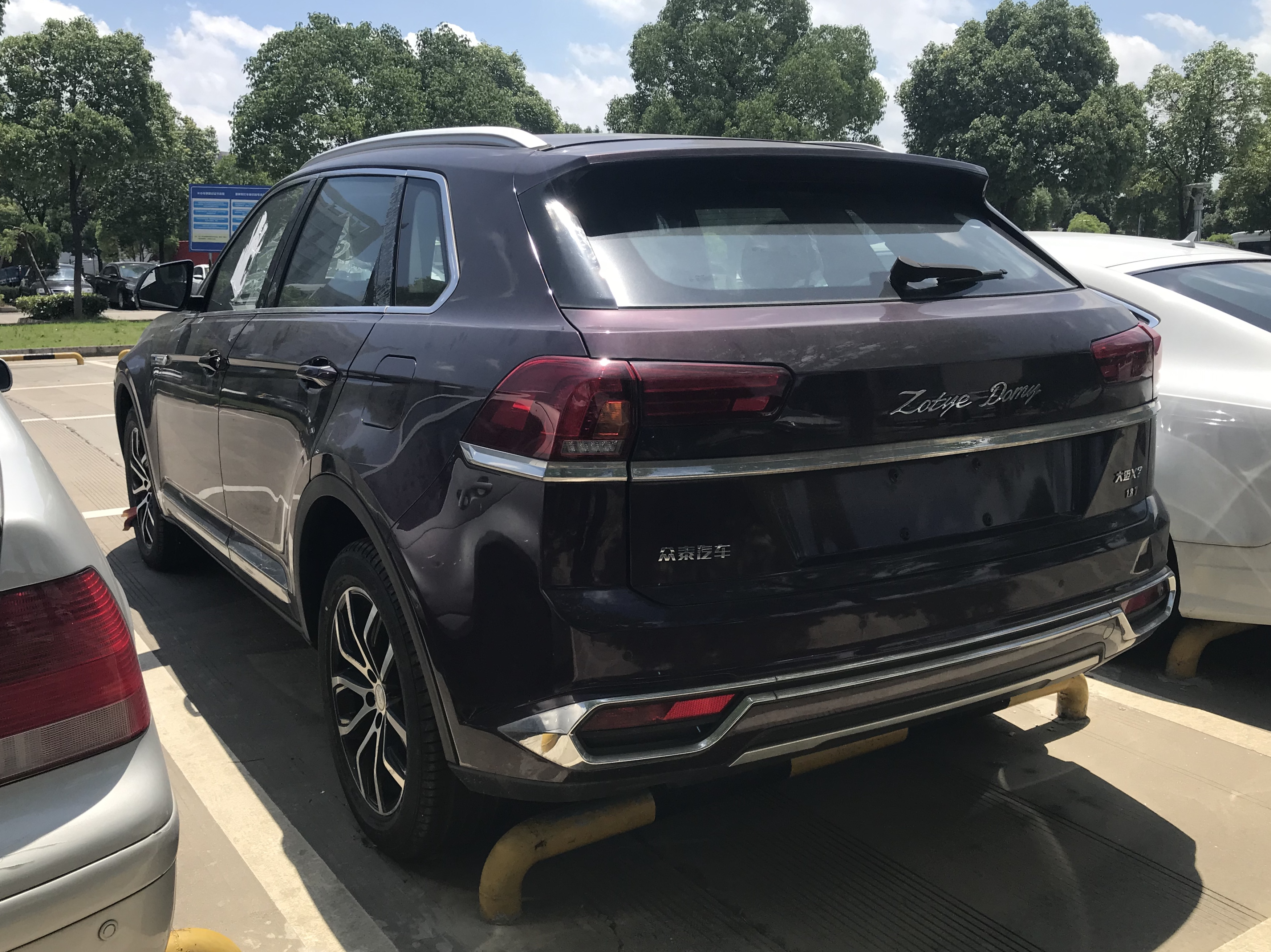 Zotye Domy X7